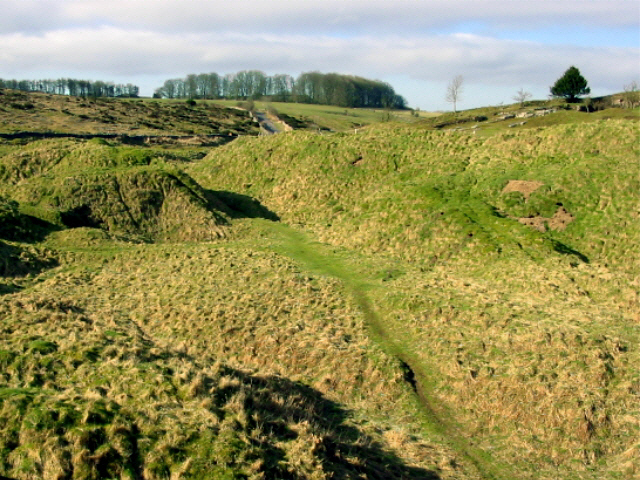 Old lead mining site in the Mendips Active from Roman to Victorian times